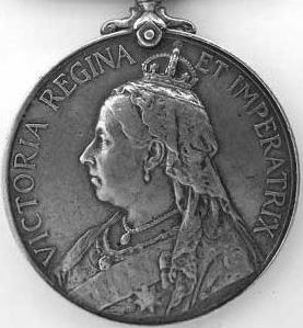 Third China War Medal 1900 obverse